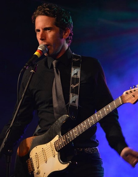 Kid Memphis in concert 2016